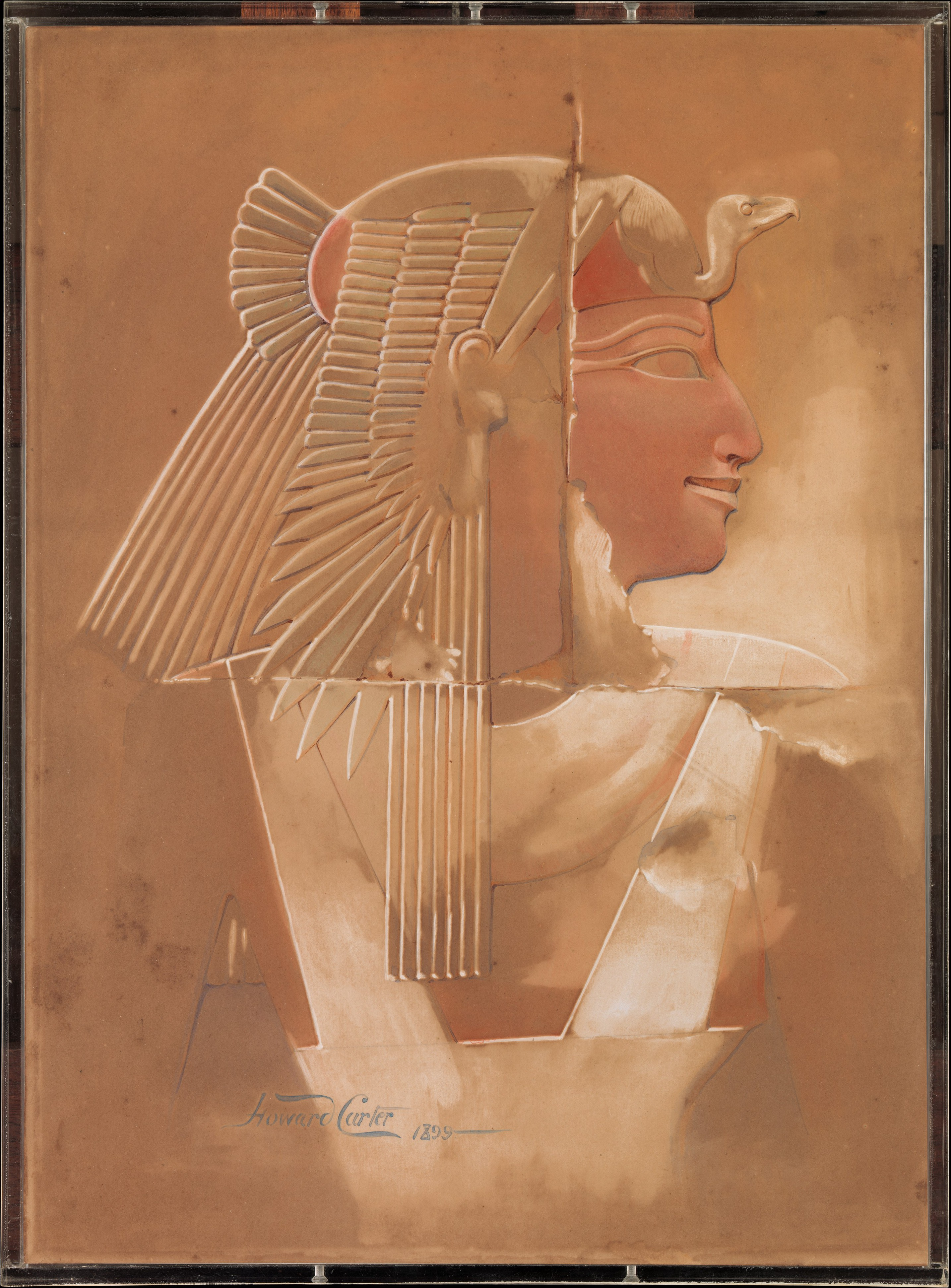 Facsimile, Hatshepsut's Temple, Queen Ahmose